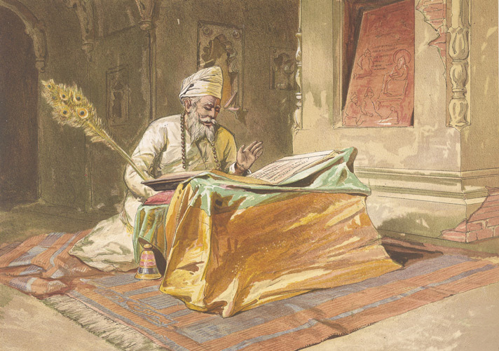 "Sikh priest reading the Grunth, Umritsur," by William Simpson, 1867* (BL)